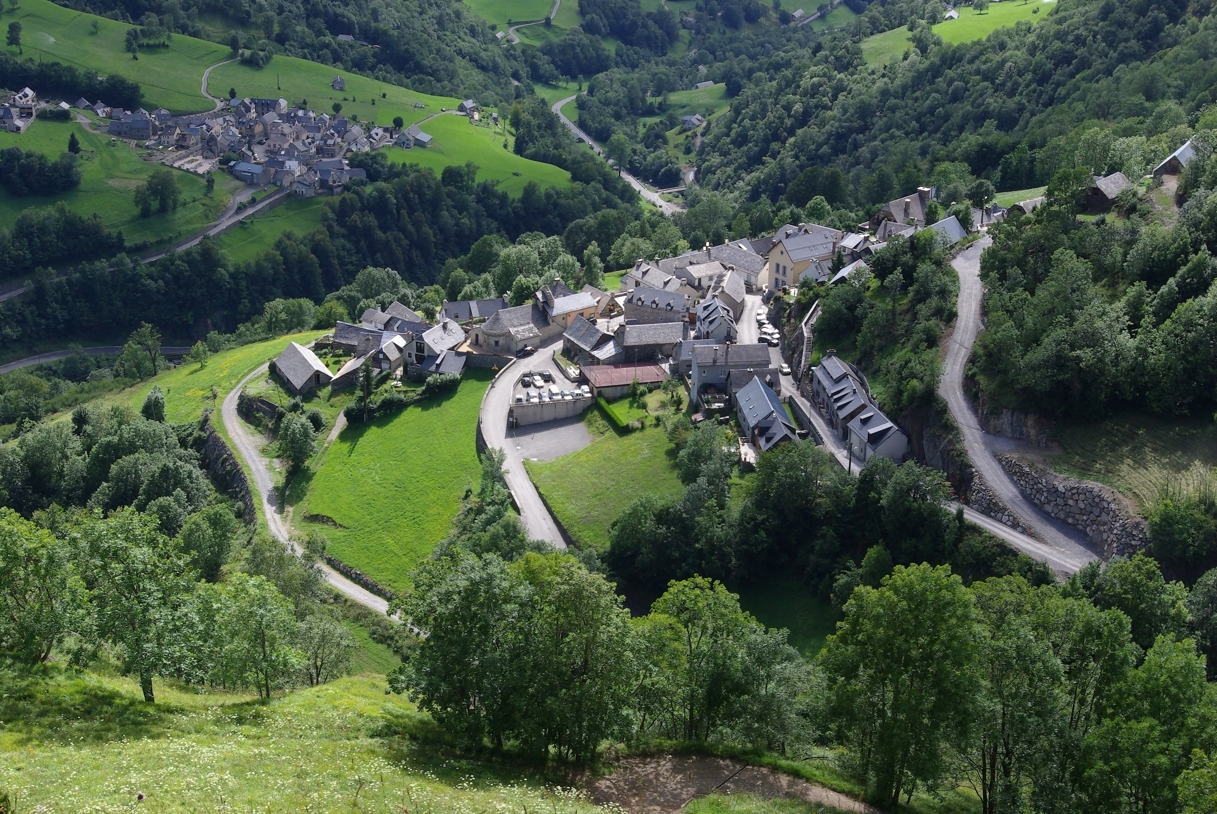 Mountain villages (Sers and Betpouey) seen from Saint-Justin, near Barèges, France.